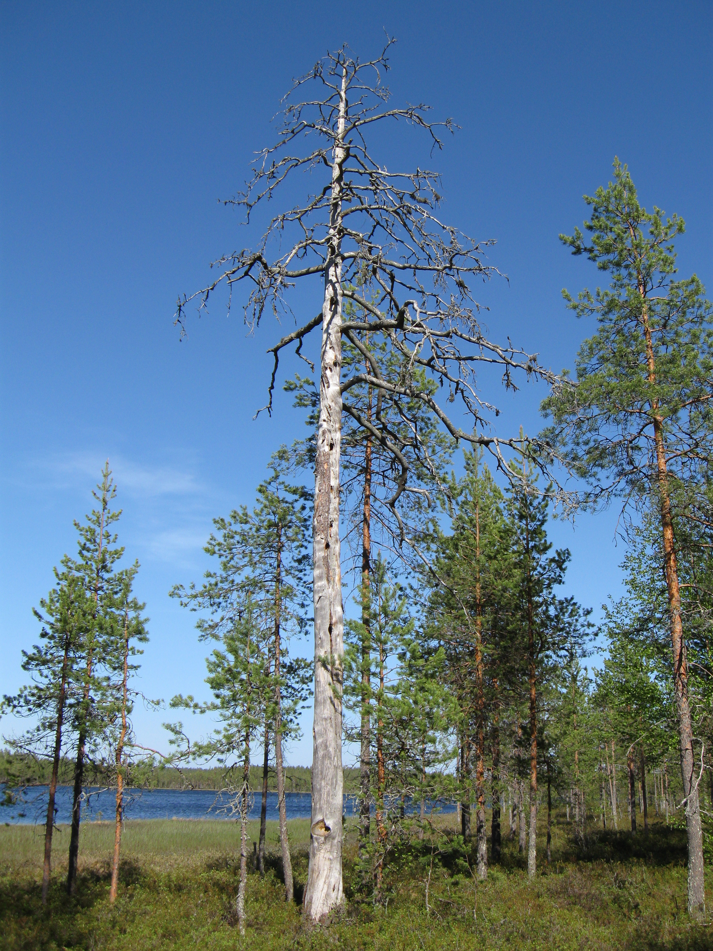 A dead tree at Lavajärvi, Ylikiiminki (Oulu), Finland.